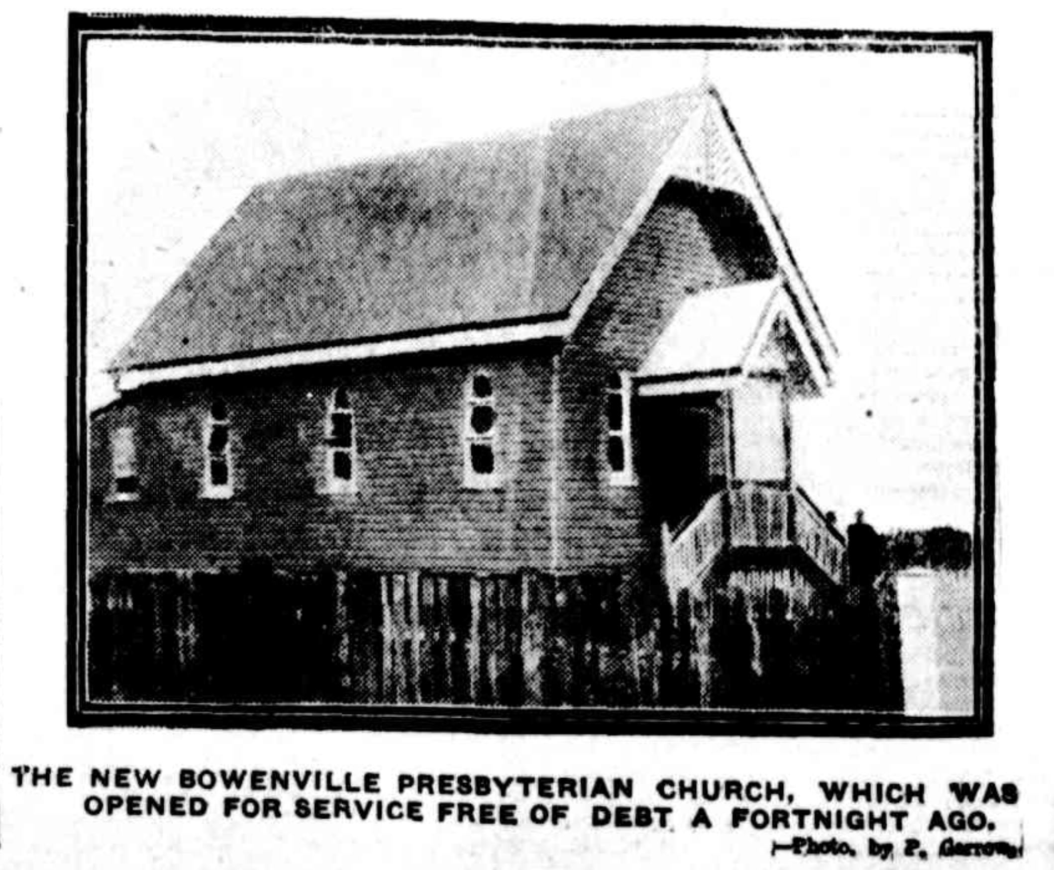 The new Bowenville Presbyterian Church, which was opened for service free of debt a fortnight ago, 1916